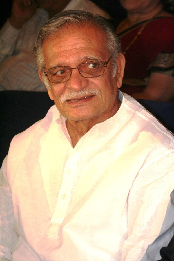 Indian lyricist and film director Gulzar at the launch of the album Chand Parosa Hai in 2008